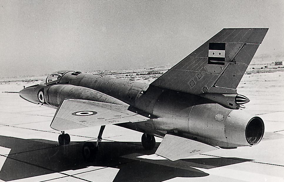 Egyptian aircraft HA-300 in Helwan